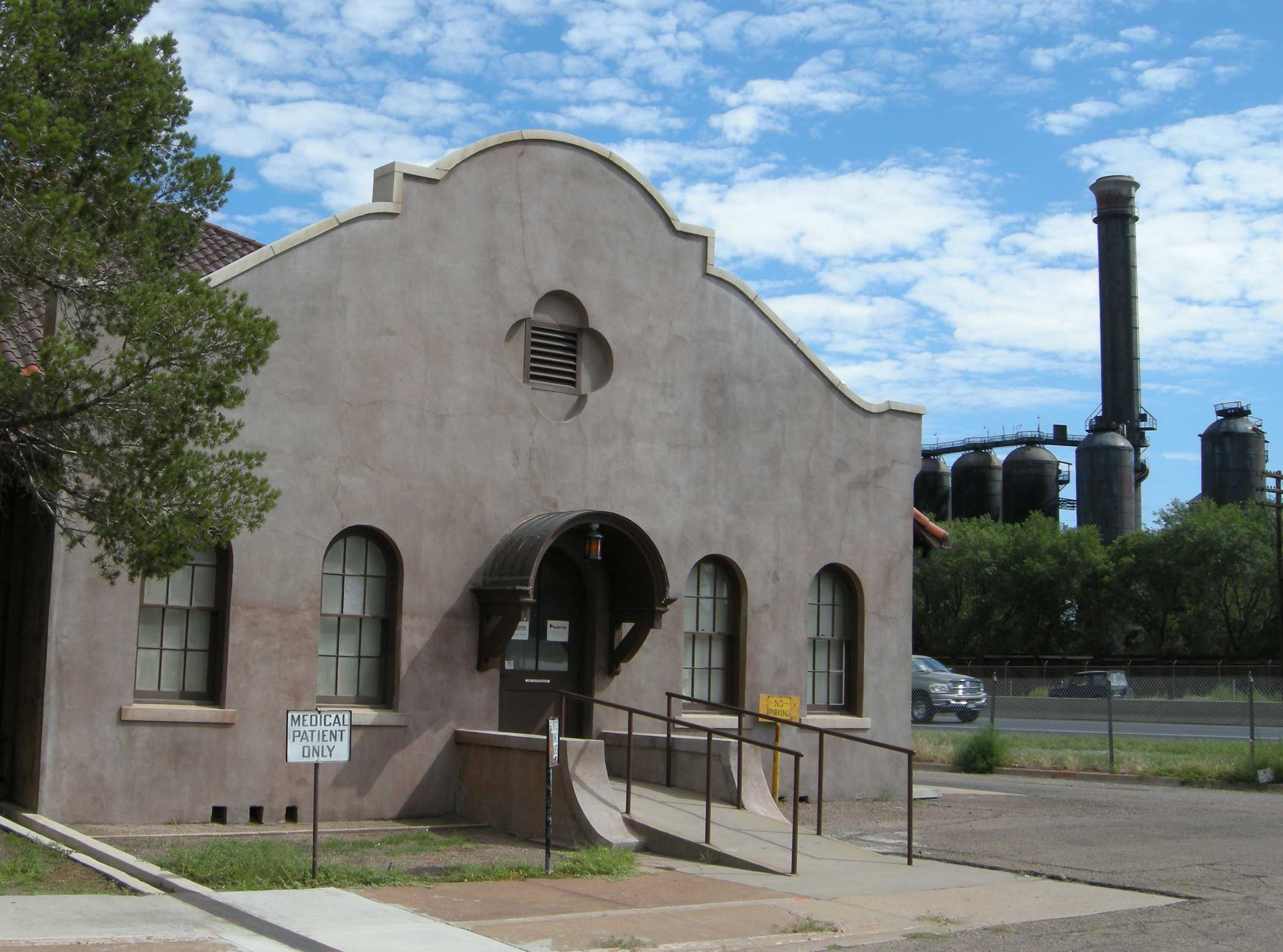 Former Colorado Fuel & Iron Co. infermary building, now housing the Steelworks Museum of Industry and Culture, Pueblo, Colorado, U.S.